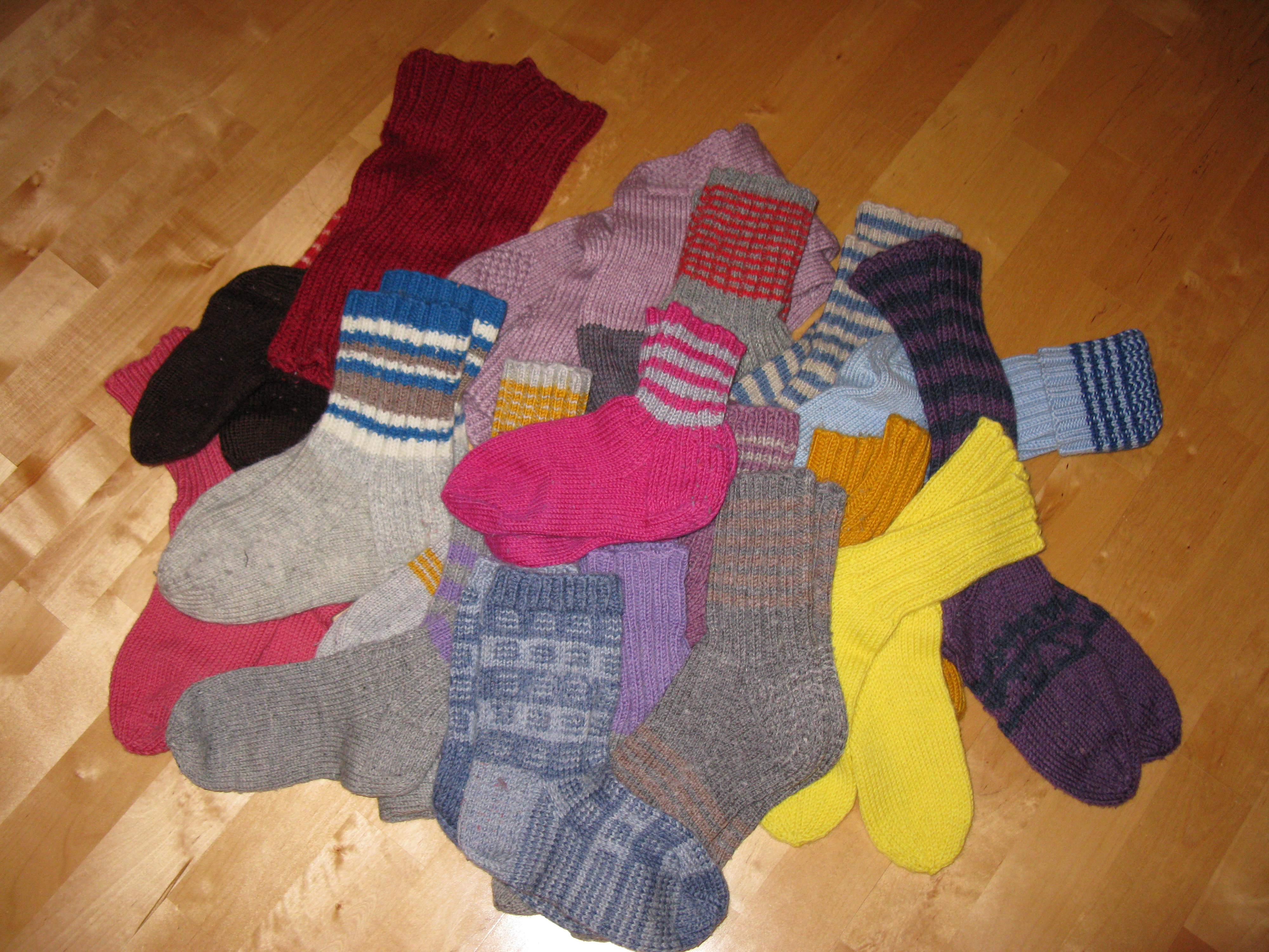 Woolen socks piled onto the floor.